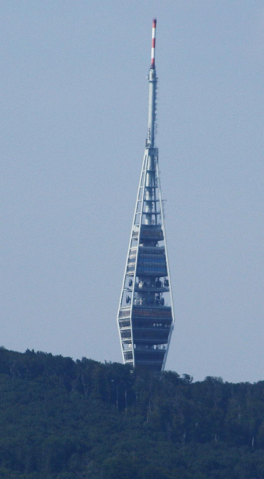 Kamzík transmission tower in Bratislava.